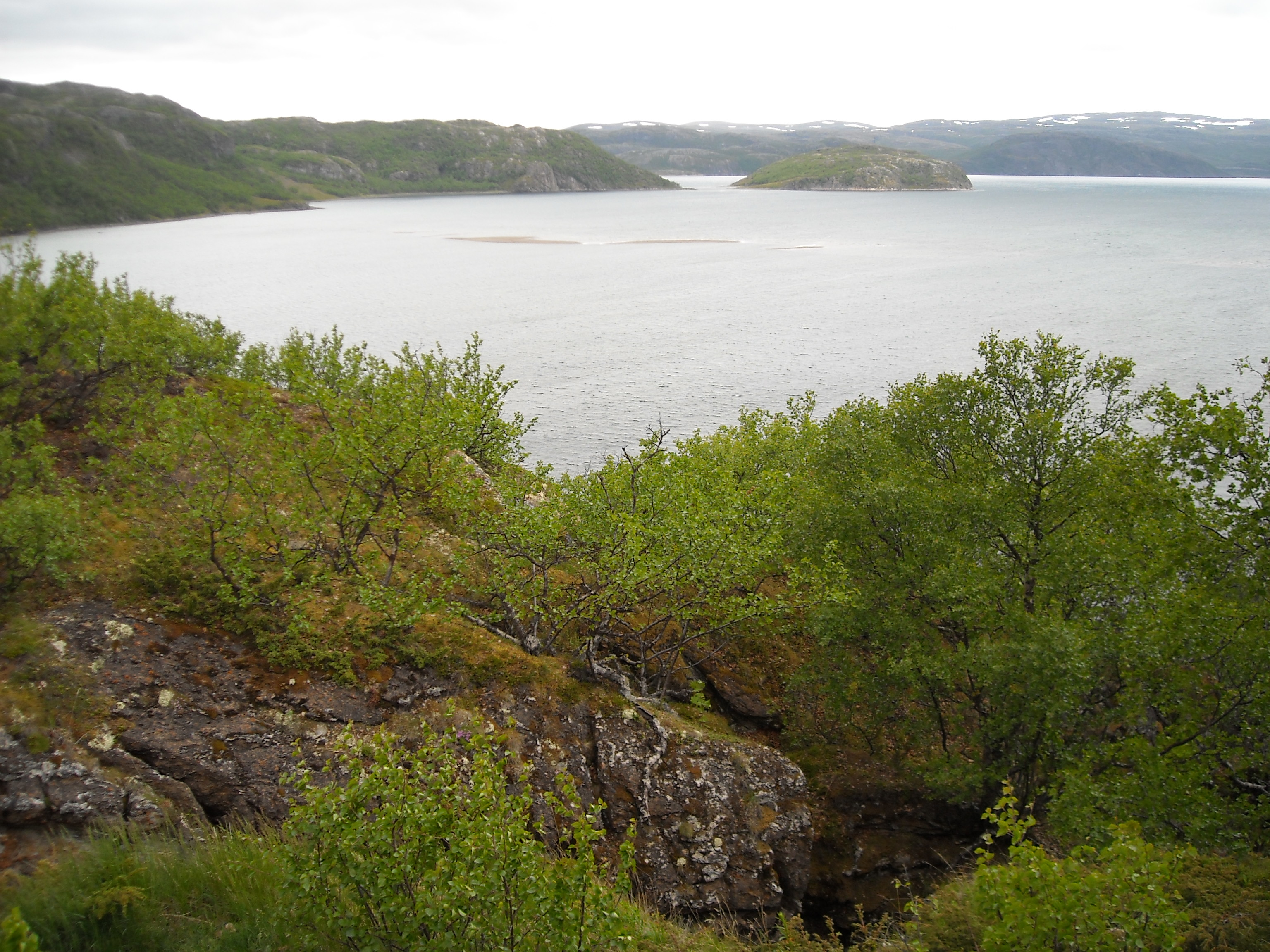 Adamsfjord nature reserve, Lebesby municipality, Norway